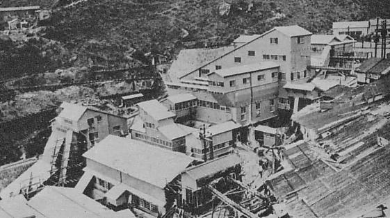 Kinkaseki(Jinguashi) Mine